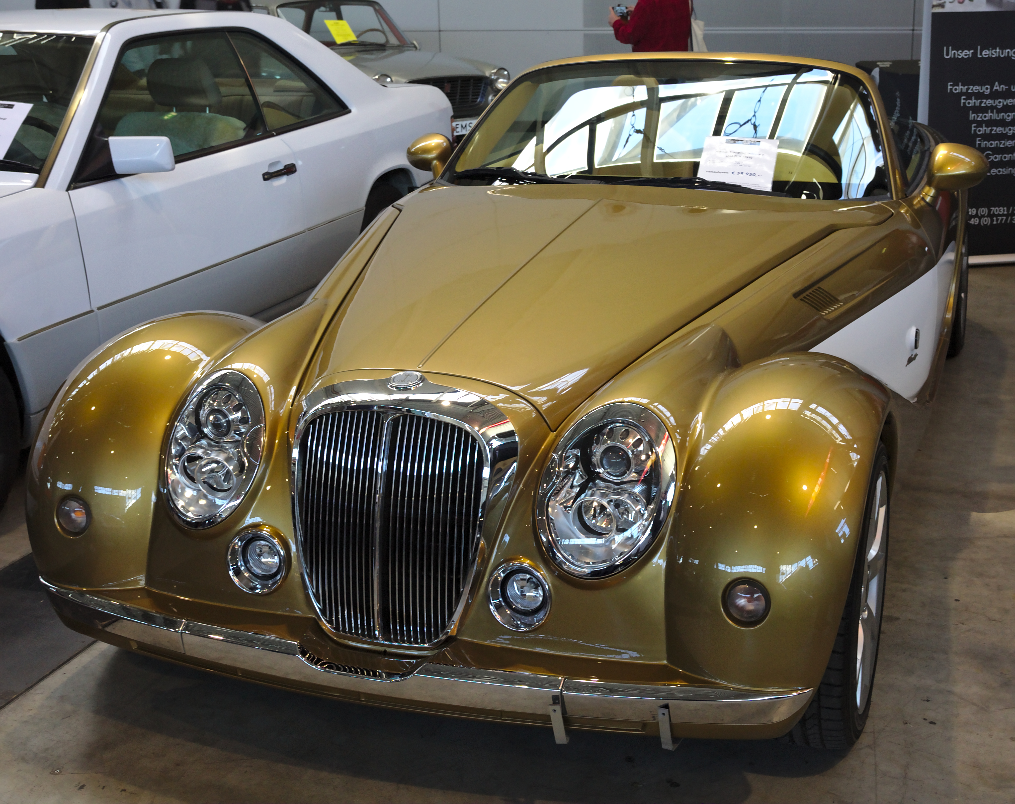 Mitsuoka Himiko Roadster at Retro Classics 2019